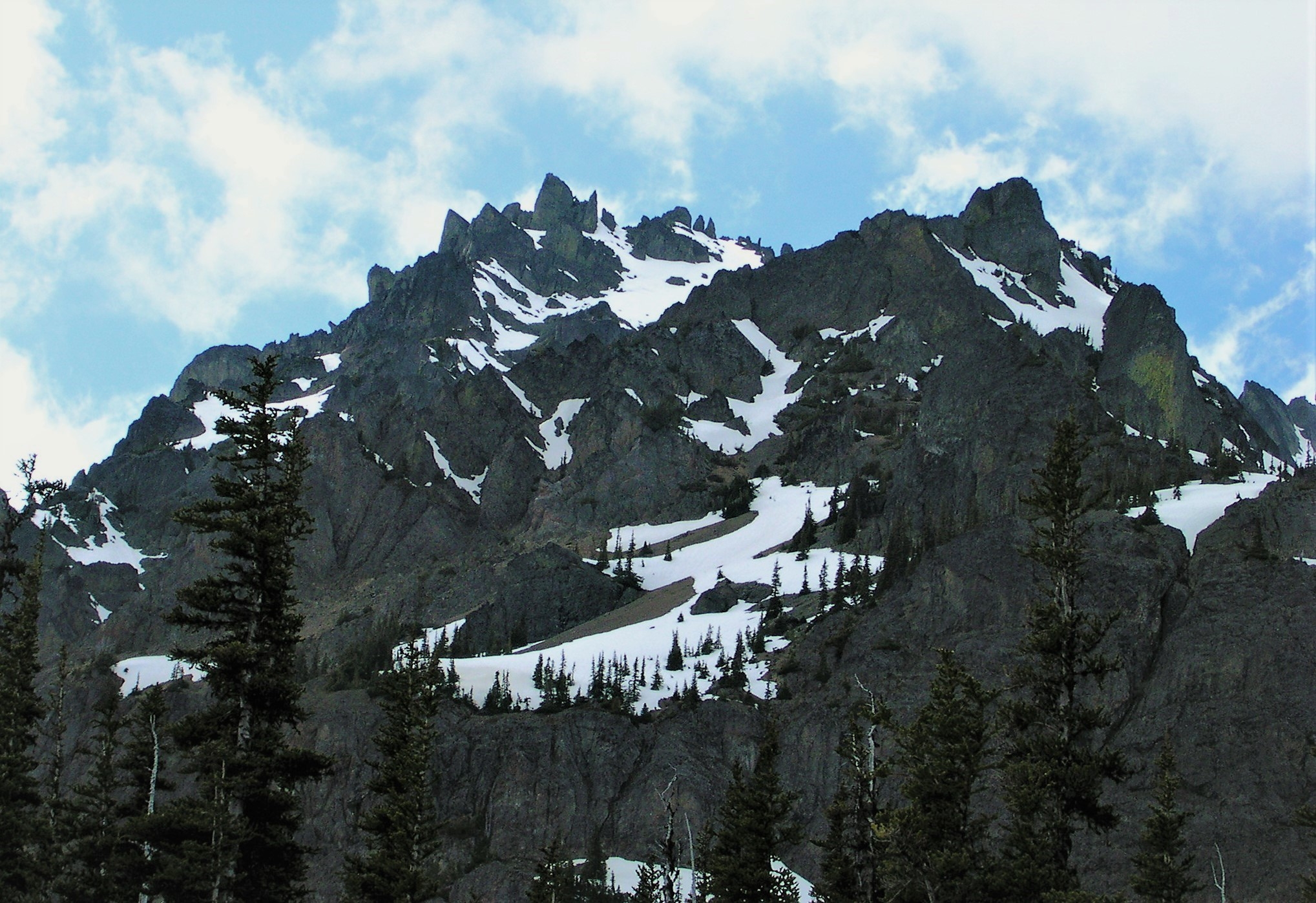 East aspect of Sundial viewed from Royal Basin